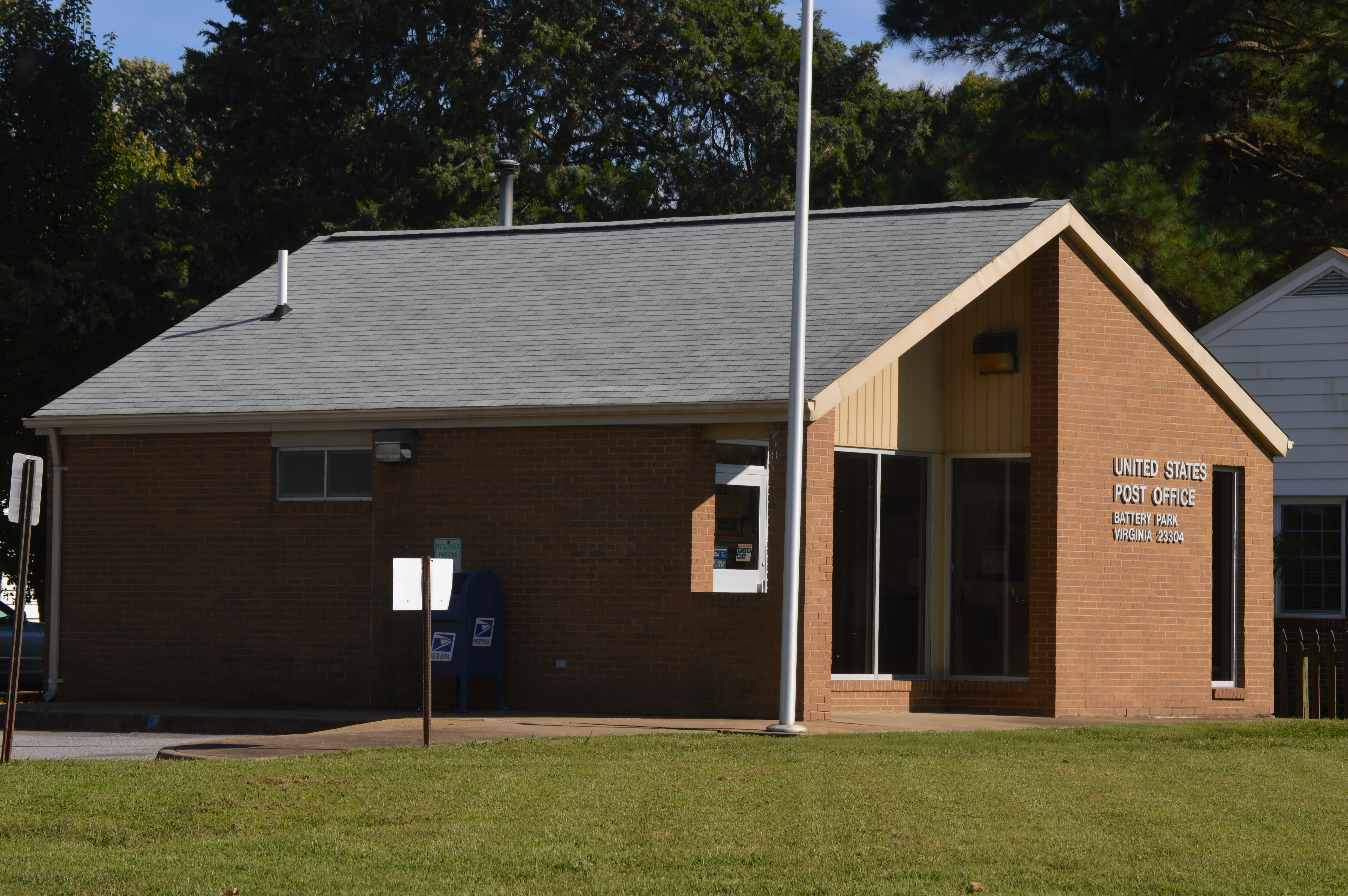 Front of the Battery Park post office, located on Todd Avenue at Warwick Street in Battery Park, Virginia, United States.